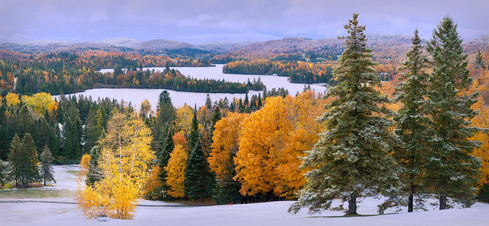 Happy Holidays everyone. Despite the constant noise from the dark side, the good in humanity is easy to find - and often close to home. Record it. It’s what we do. There will come a time when these images are precious to all involved, both young and old.